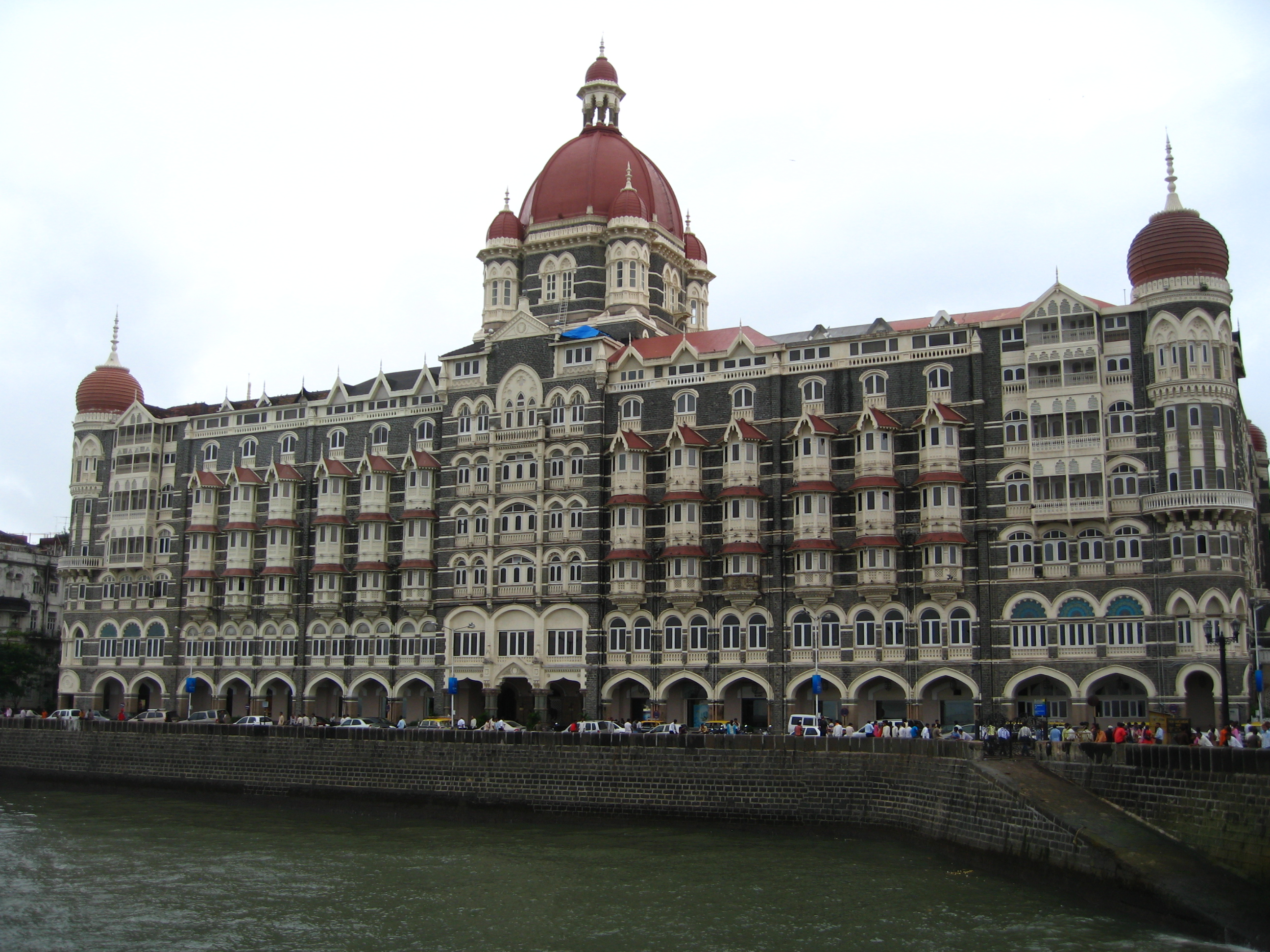 Taj Mahal Palace hotel, Mumbai, India.